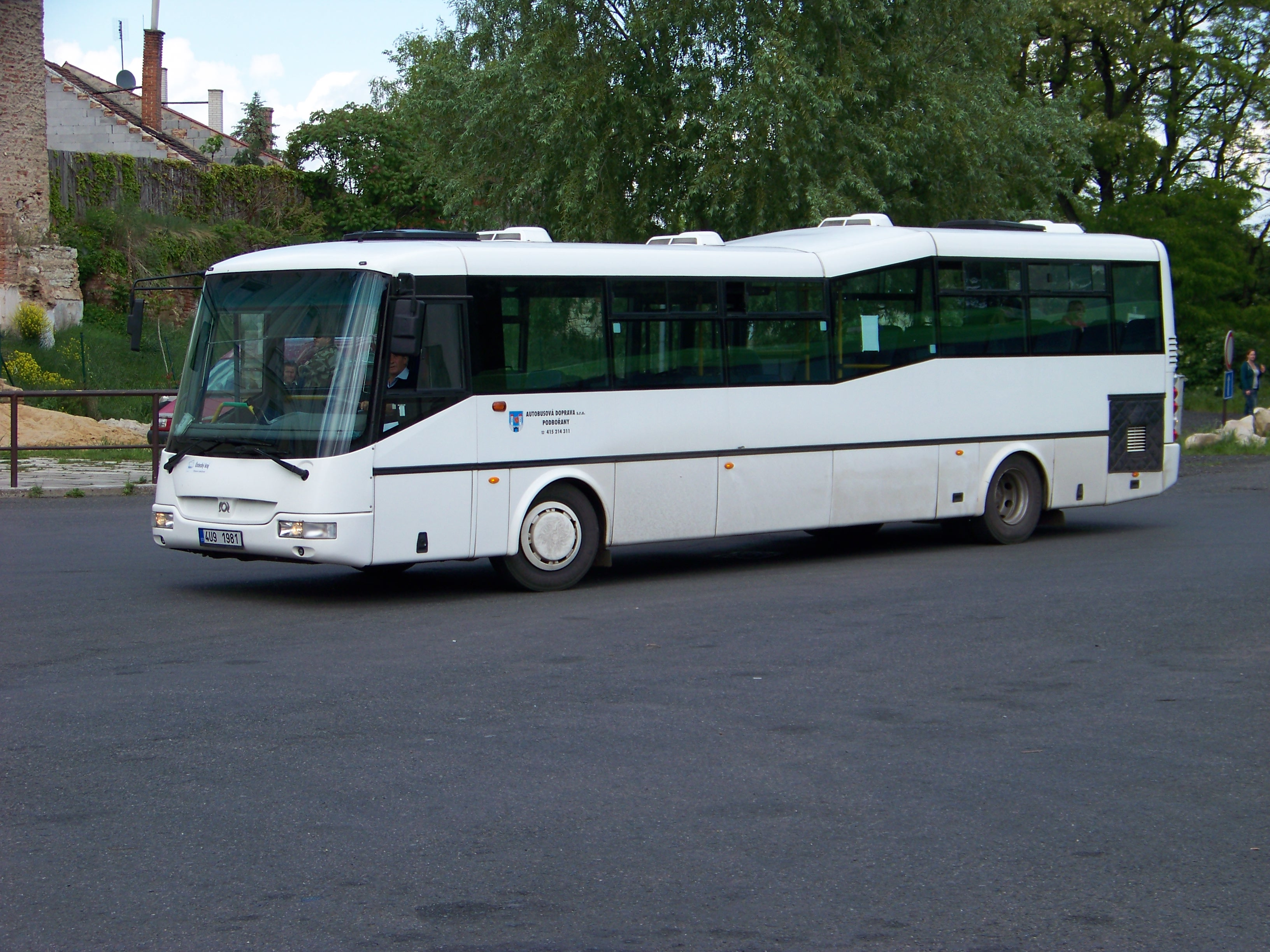 Žatec, Louny District, Ústí nad Labem Region, Czech Republic. Kruhové náměstí, bus station. SOR CN 10,5 of AD Podbořany.